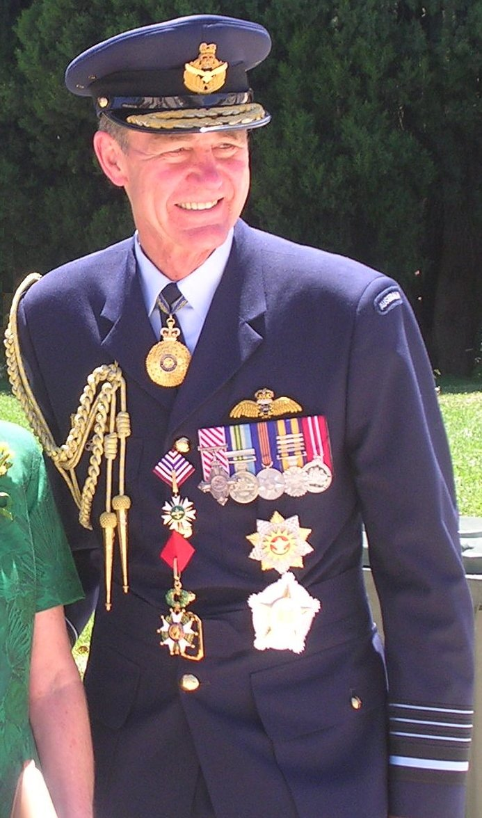 Air Chief Marshal Angus Houston at an Australia Day ceremony in Canberra.